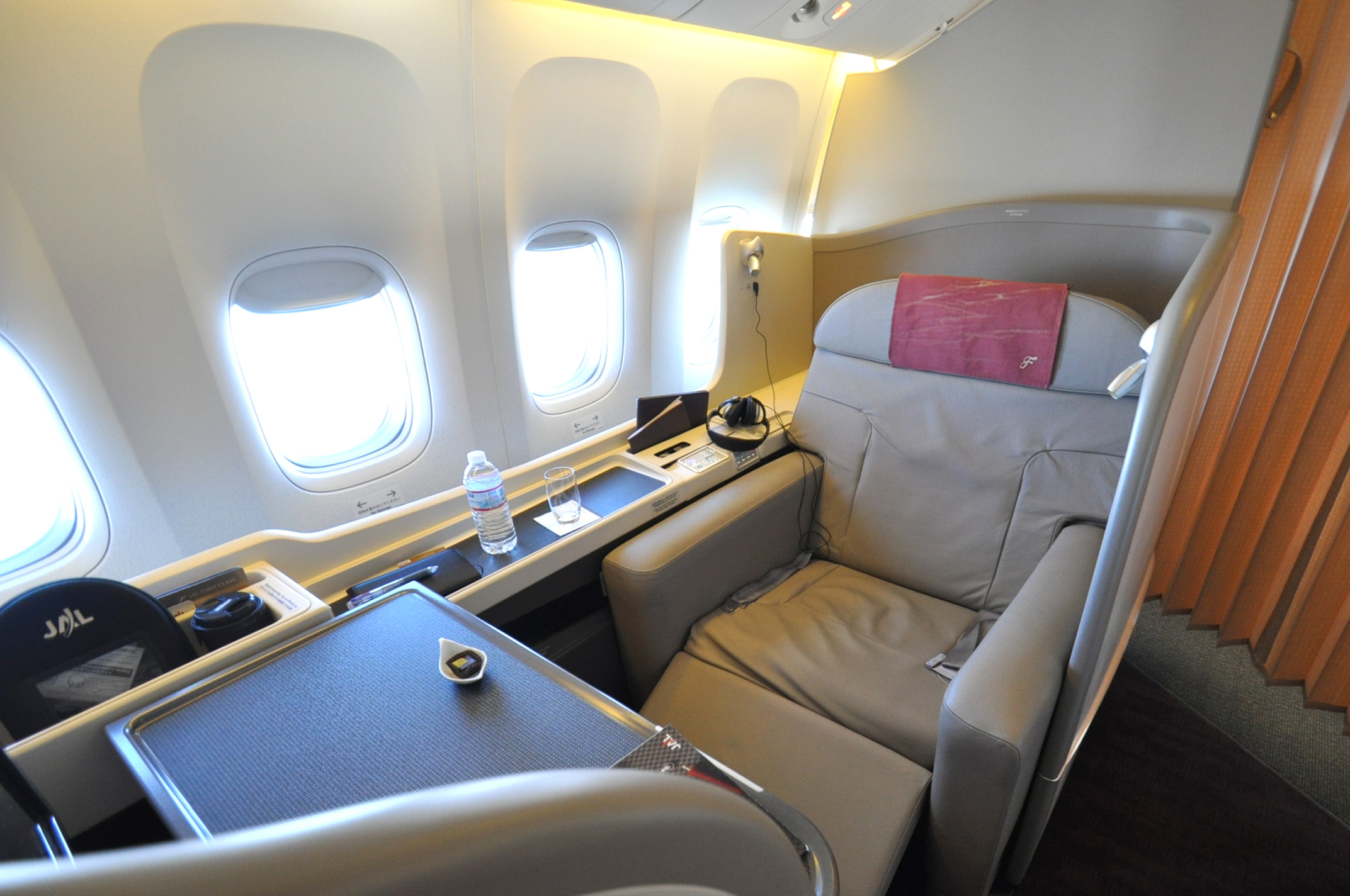 Japan Airlines international flight first-class seat｢SUITE｣.Equipped with Boeing 777-300ER